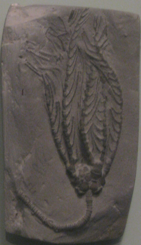 Early Carboniferous crinoid fossil, Decadocrinus depressus, photographed 30 March 2012 at Smithsonian Museum of Natural History, Washington, DC.